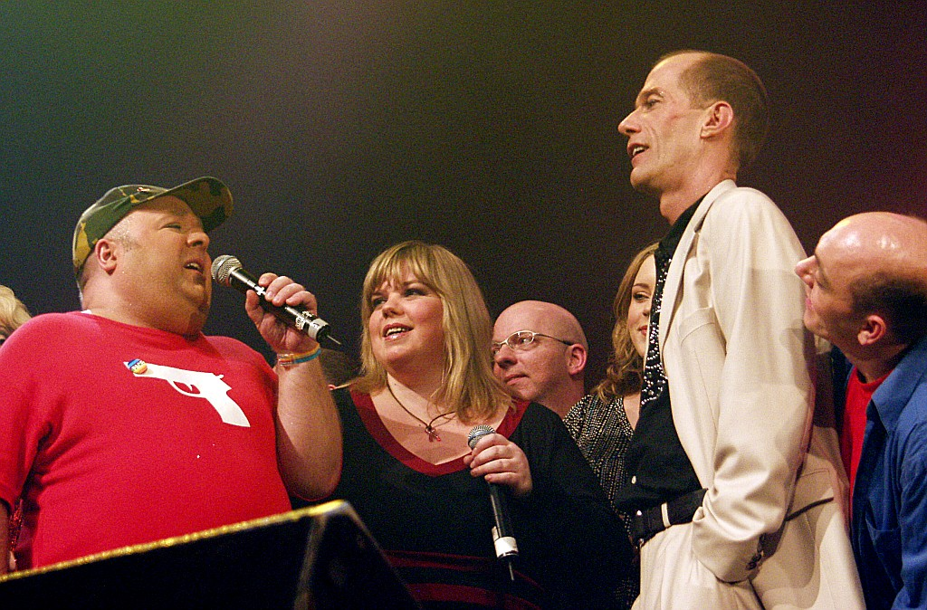 Charity concert “Cover me” at E-Werk, Cologne, Germany. Dirk Bach, Edda Schnittgard, Georg Uecker, Bernhard Hoëcker